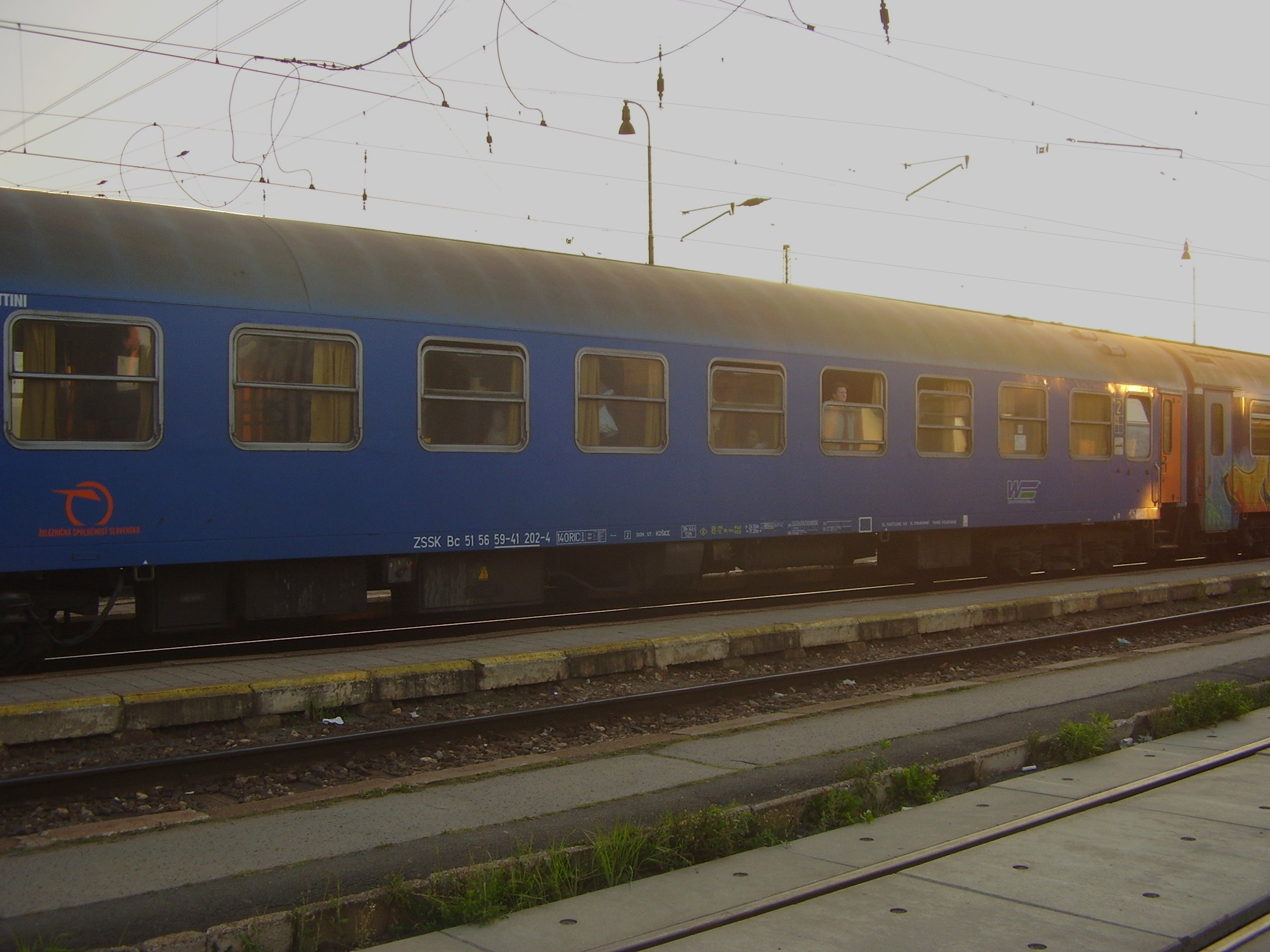 Sleeping rail car type Bc ZSSK